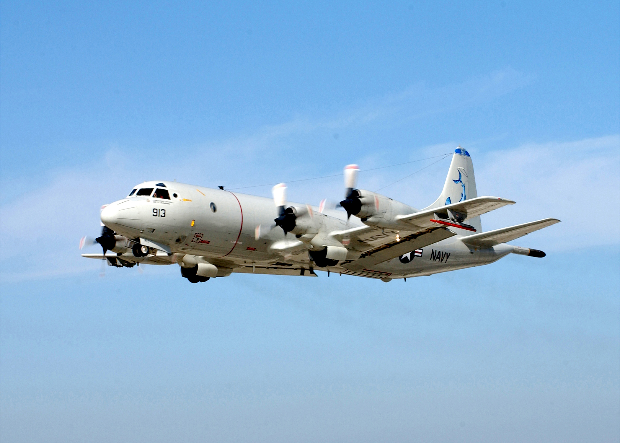 Naval Air Station North Island, Calif. (Jan. 29, 2003) -- A P-3C "Orion" assigned to the "Fighting Marlins" of Patrol Squadron 40 (VP-40) takes off on a routine training mission. The Orion, which carries a crew of ten, is a multi-mission, long-range maritime patrol aircraft. U.S. Navy photo by Senior Chief Photographer’s Mate Mahlon K. Miller. (RELEASED)